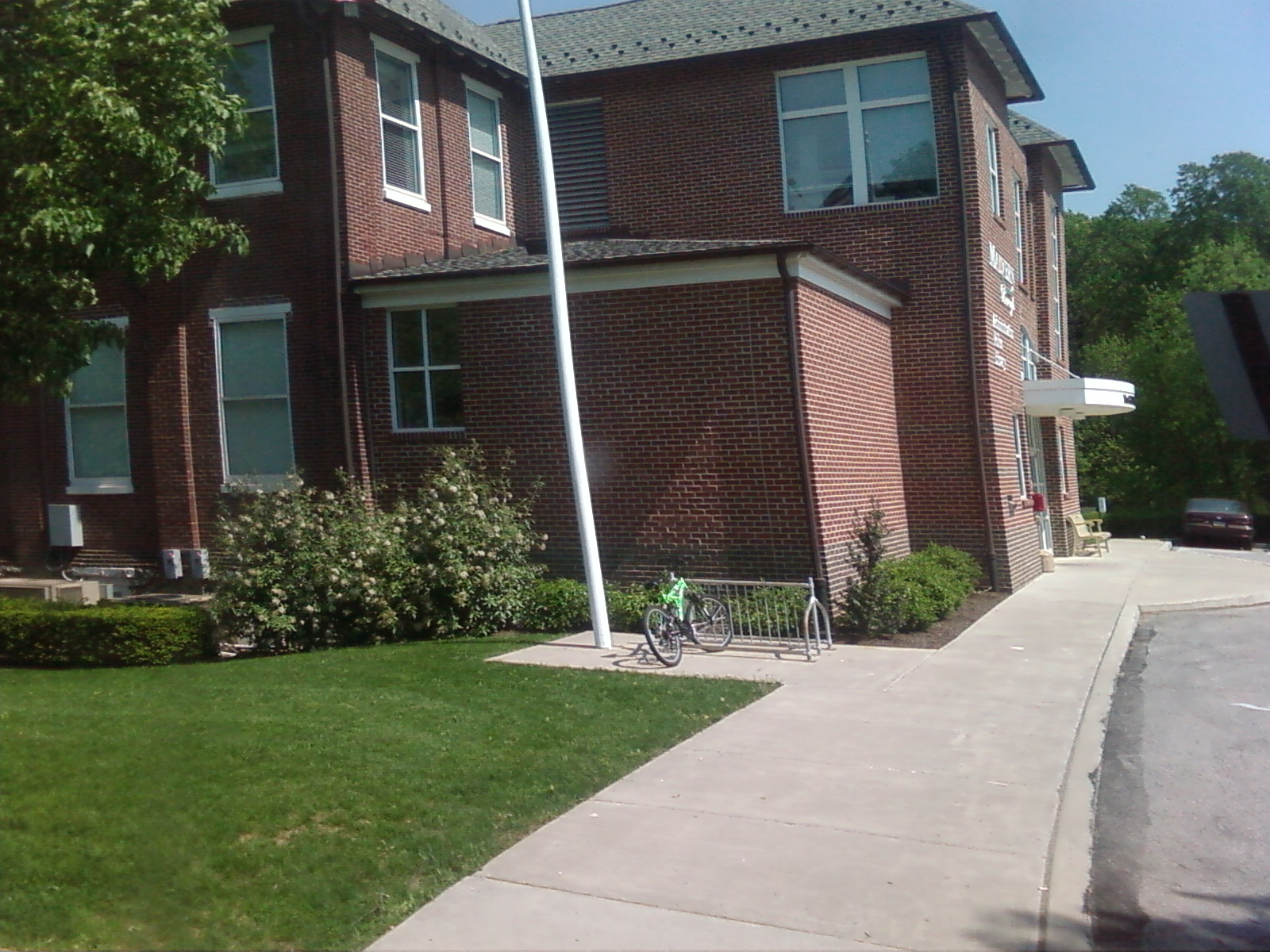 Photo of Malvern's administrative, police, and library building